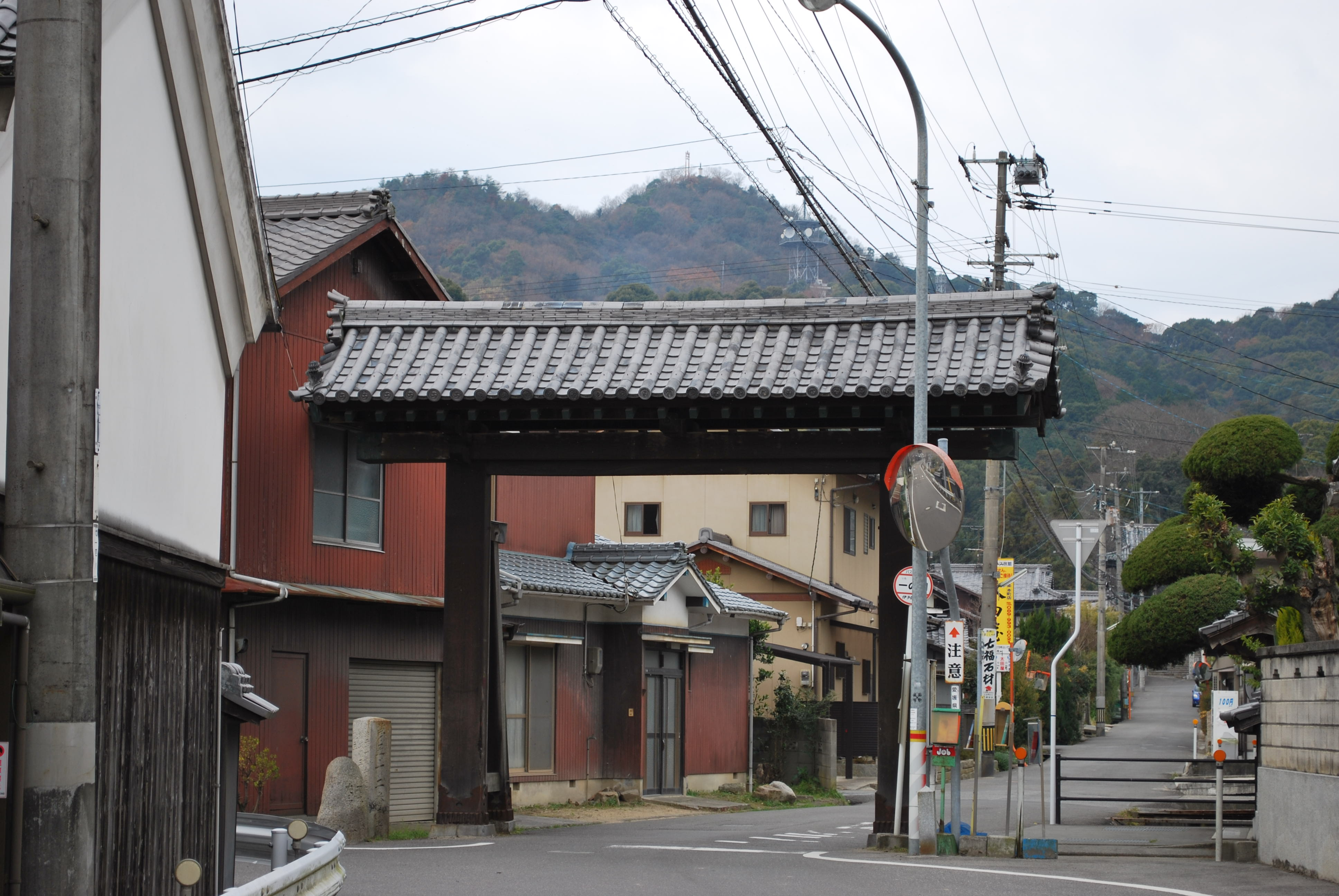 First gate, Taisan-ji